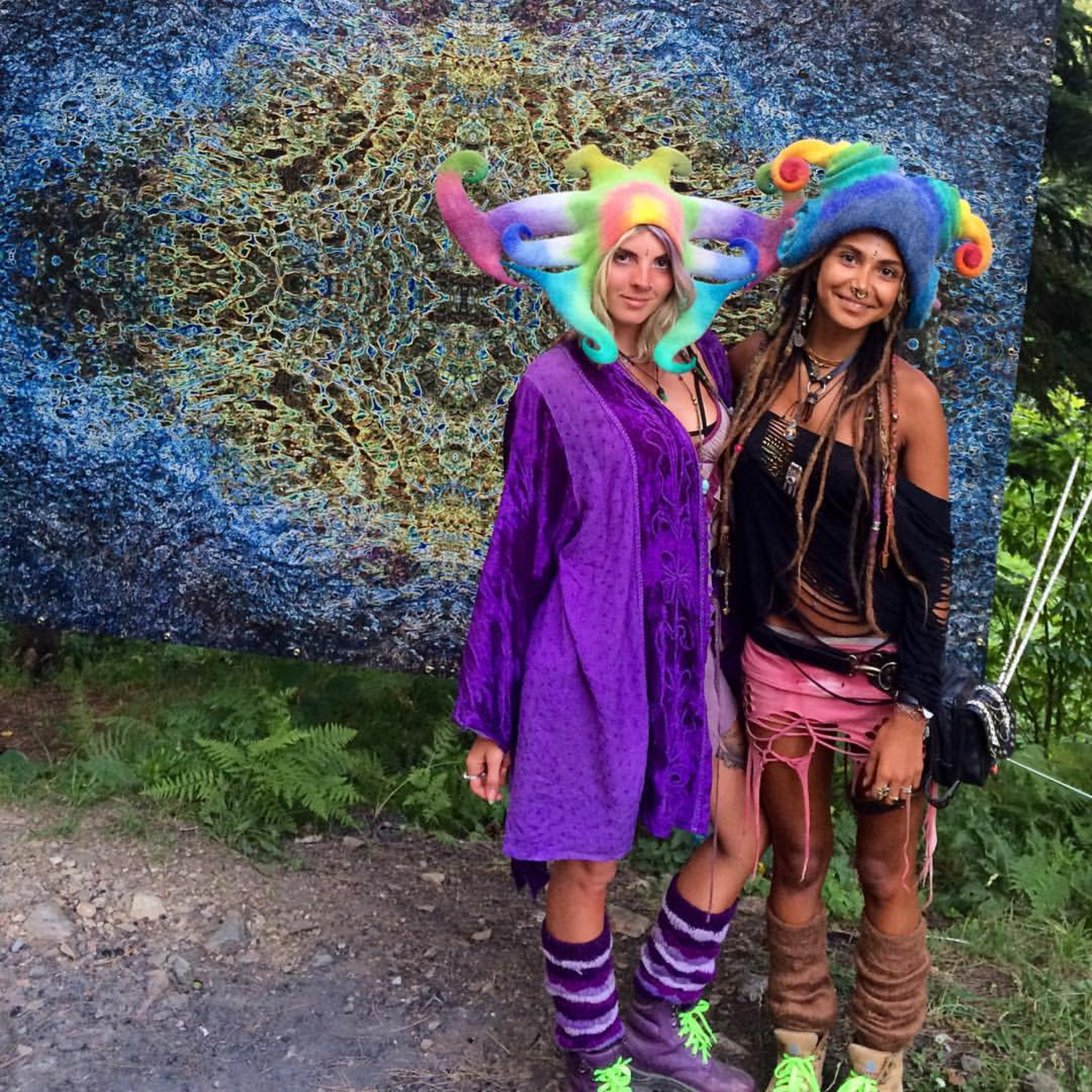 Colorful Neon Attendees